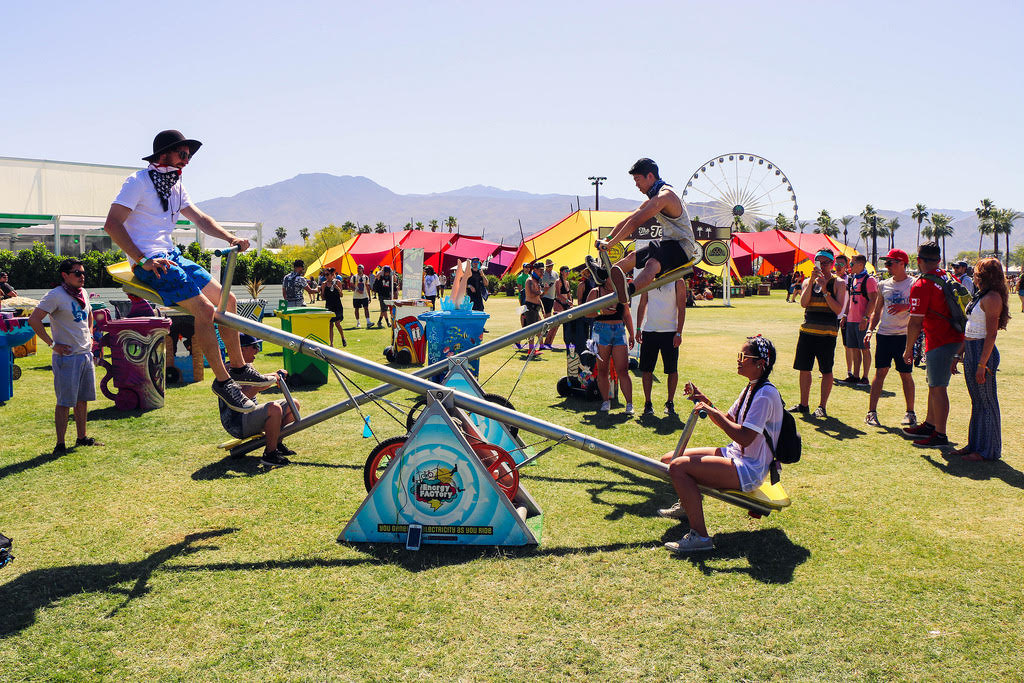 The Energy Playground provides Coachella Music & Arts Festival a great opportunity to recharge their phone and rethink the way they consume power